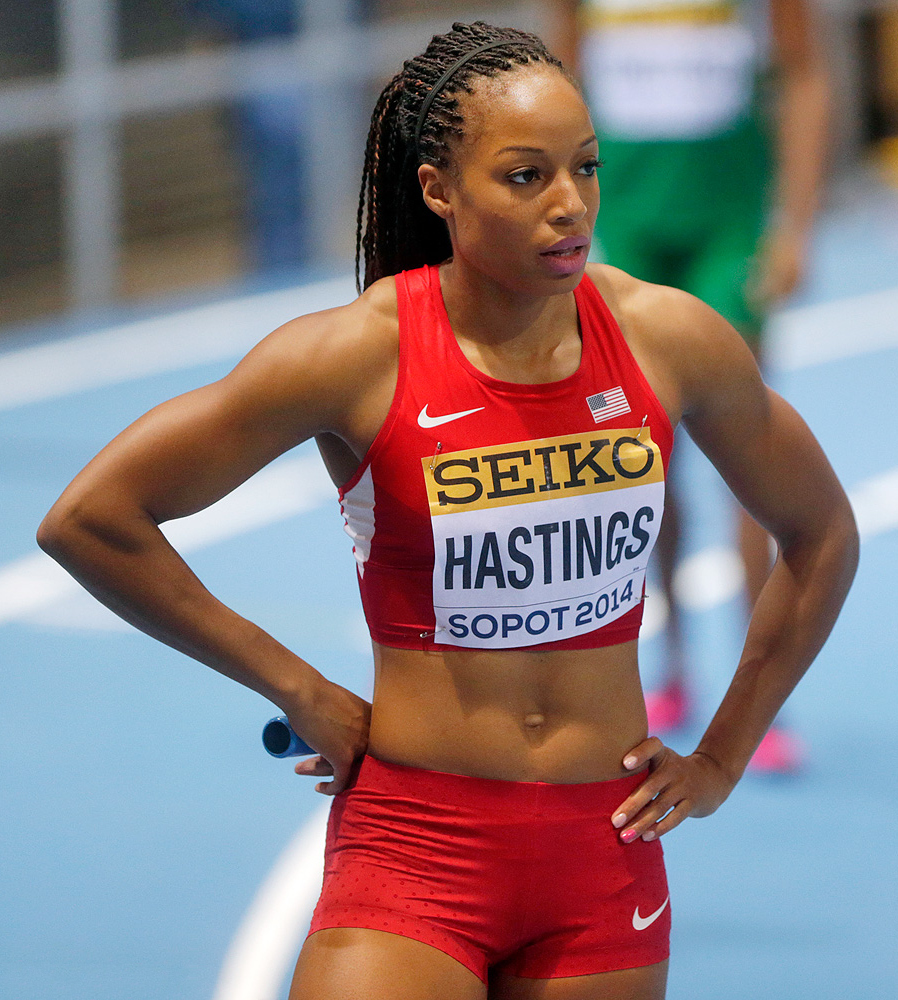 Natasha Hastings in 2014 IAAF World Indoor Championships